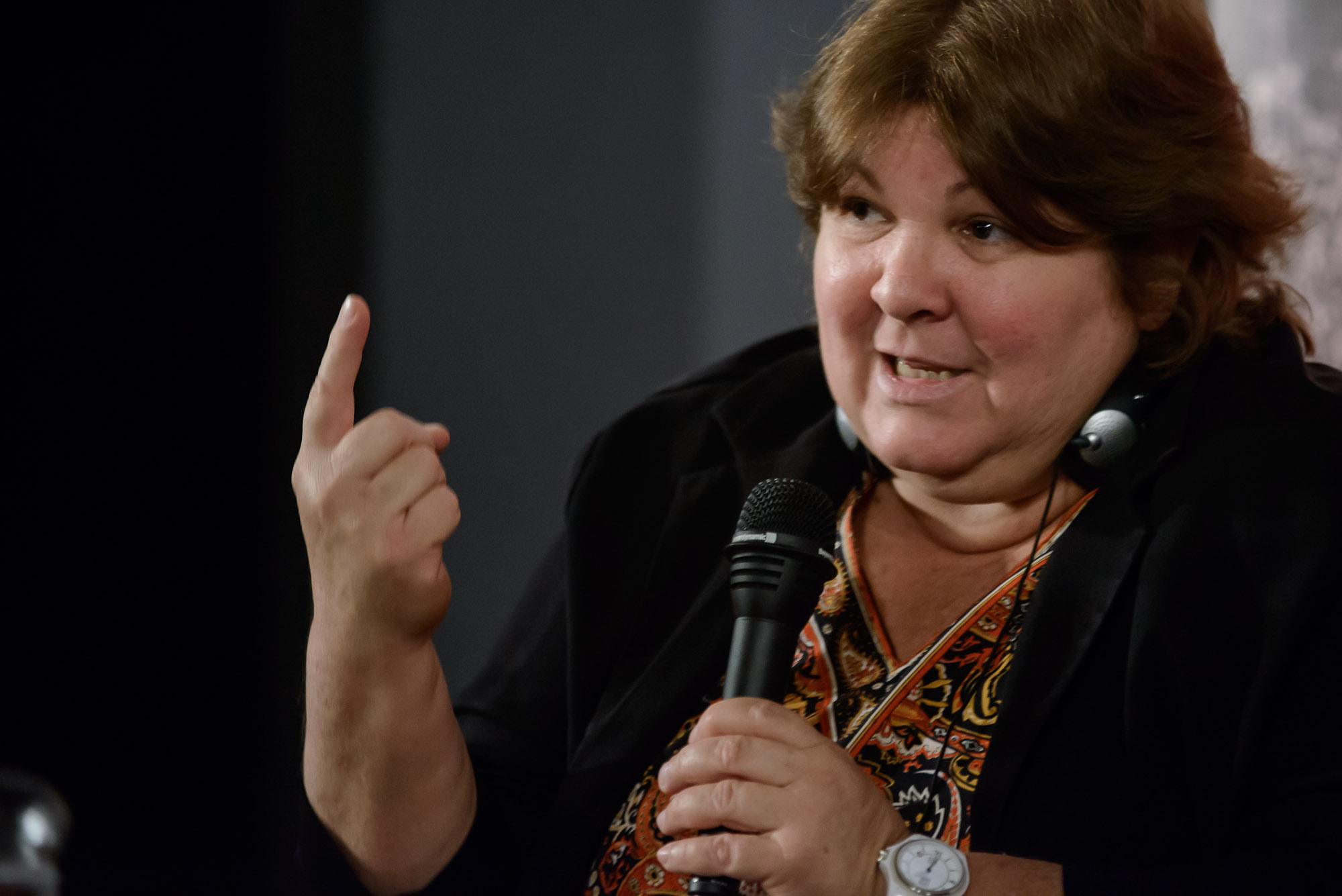 Aleida Guevara speaking on Subversive Festival 2013 in Zagreb.